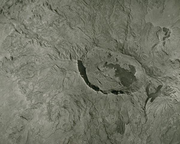 A vertical aerial photo of the Quaternary Fentale volcanic complex, lying along the main Ethiopian rift zone, shows its prominent summit caldera and lava flows forming its flanks. The 3 x 4 km caldera with steep-sided walls up to 500 m high is elongated perpendicular to the direction of the regional fissures of the Ethiopian Rift. Note the recent rhyolitic obsidian lava flow to the NE (upper right) marked with curved flow ridges. The dark lava flow on the caldera floor was erupted in 1820.